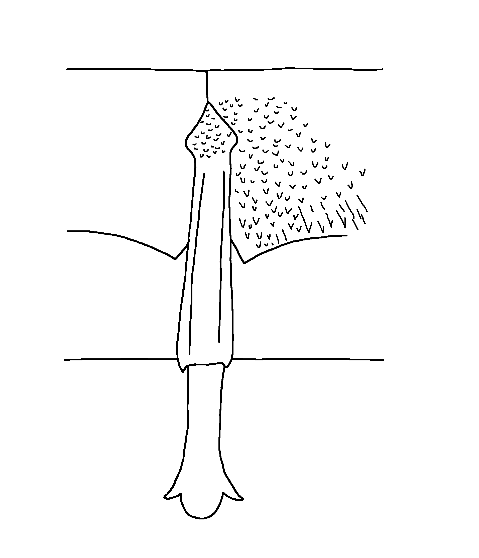 Type A genital appendage of the eurypterid species Pittsfordipterus phelpsae, based on Kjellesvig-Waering, 1964